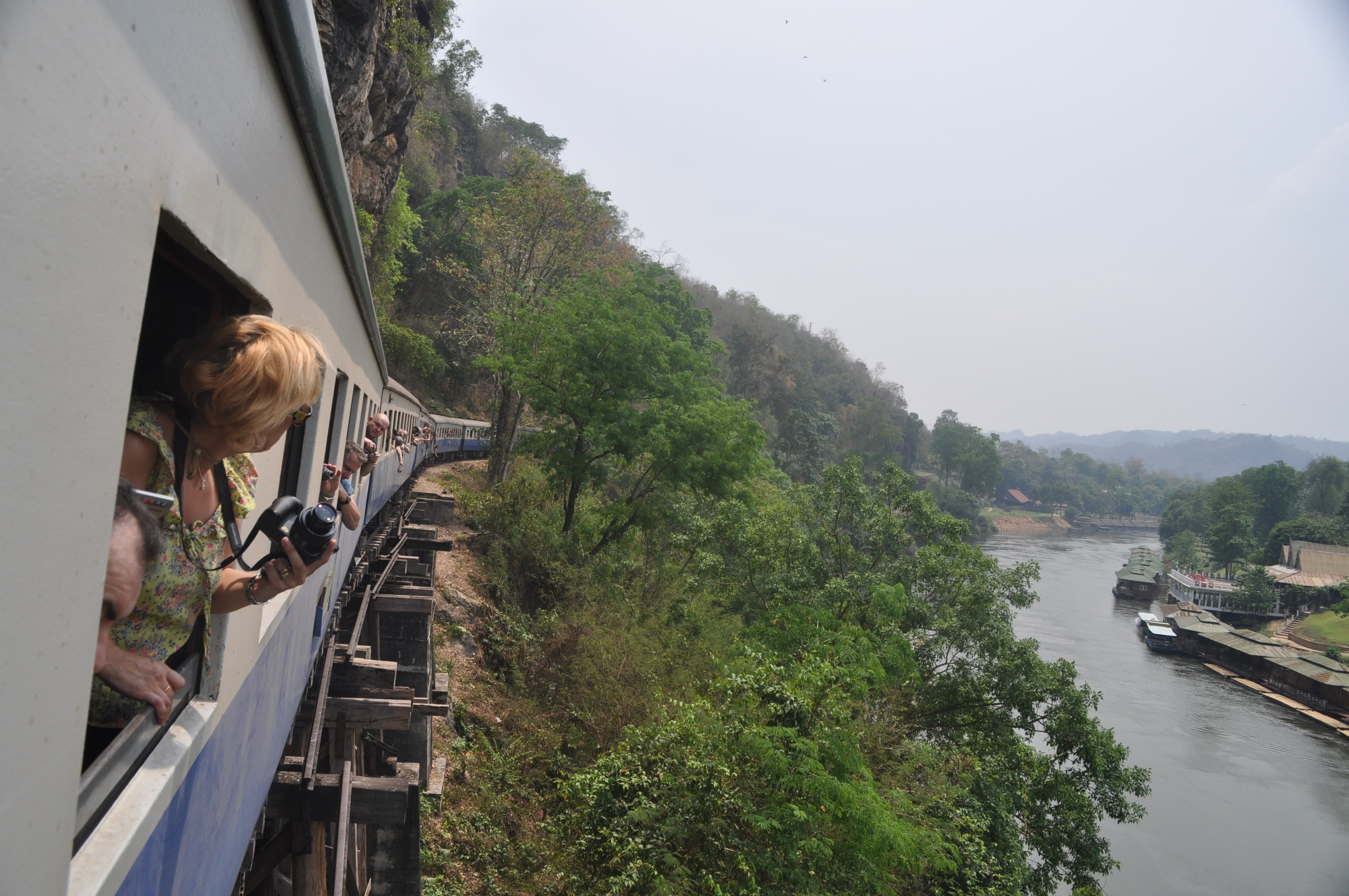 Khwae Noi River